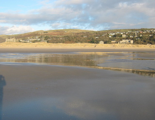 Low tide at Harlech Taken at the bottom of a low spring tide, hence the apparently wet photographer position. Looking north east with Harlech Castle on the left.